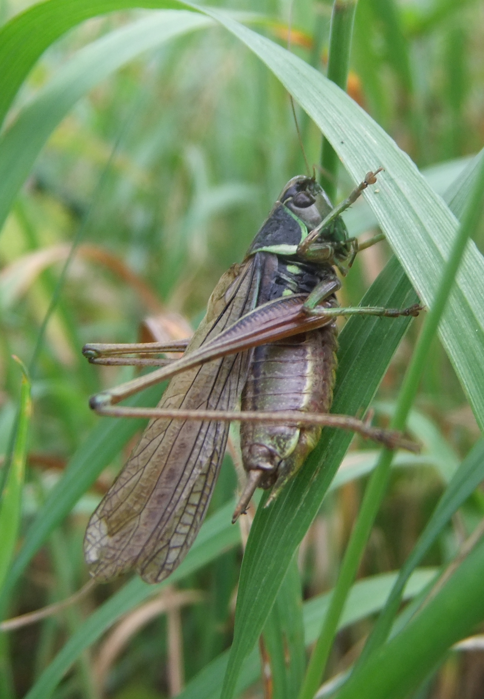 Macropterous form of Roesel's bush cricket (Metrioptera roeseli f. diluta), Sandy, Bedfordshire, UK.